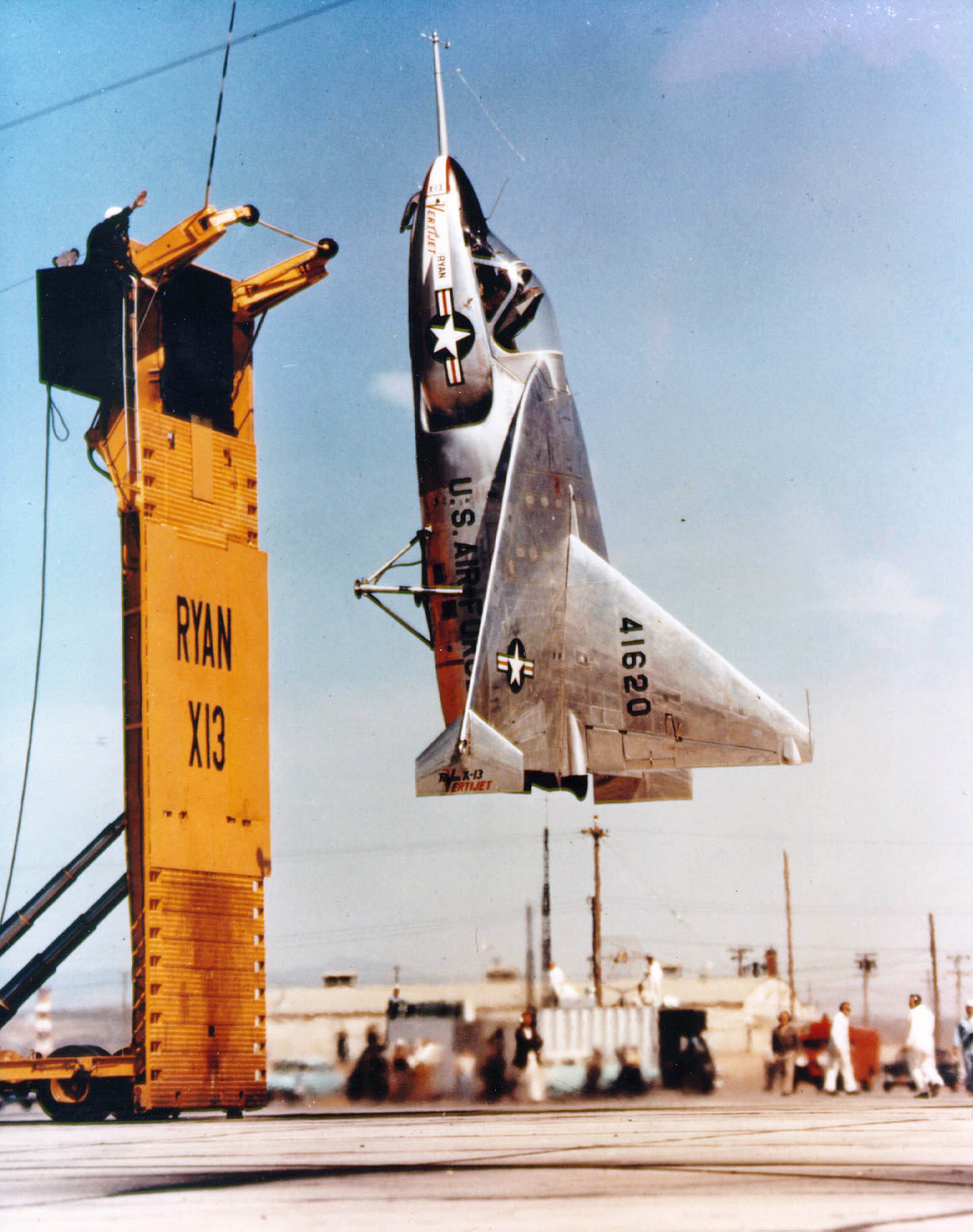 Ryan X-13 Vertijet second prototype (#54-1620) about to moor itself to a dual-role flatbed transport/launch trailer.